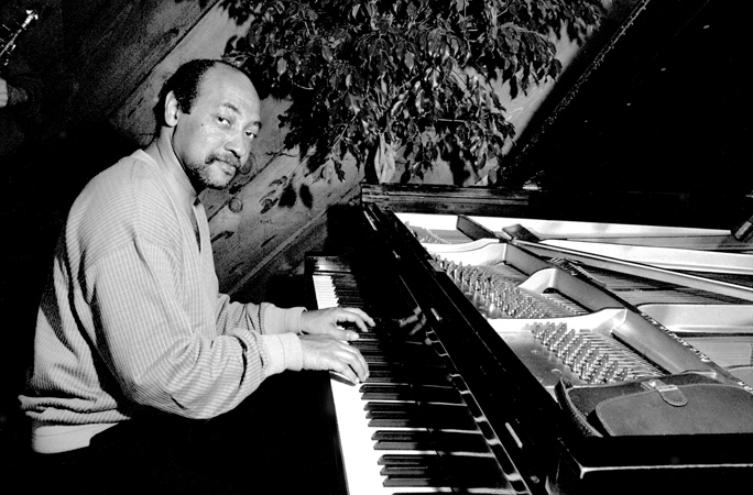 Kenny Barron at Bach Dancing & Dynamite Society, Half Moon Bay CA 1986. Photo: Brian McMillen /